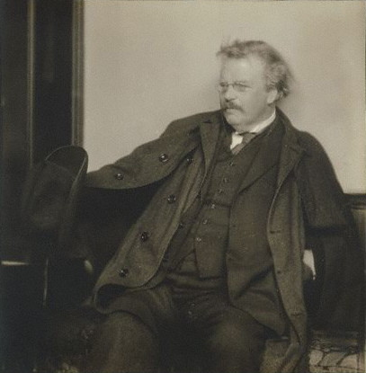 G. K. Chesterton, 1920s. Silver gelatin print.